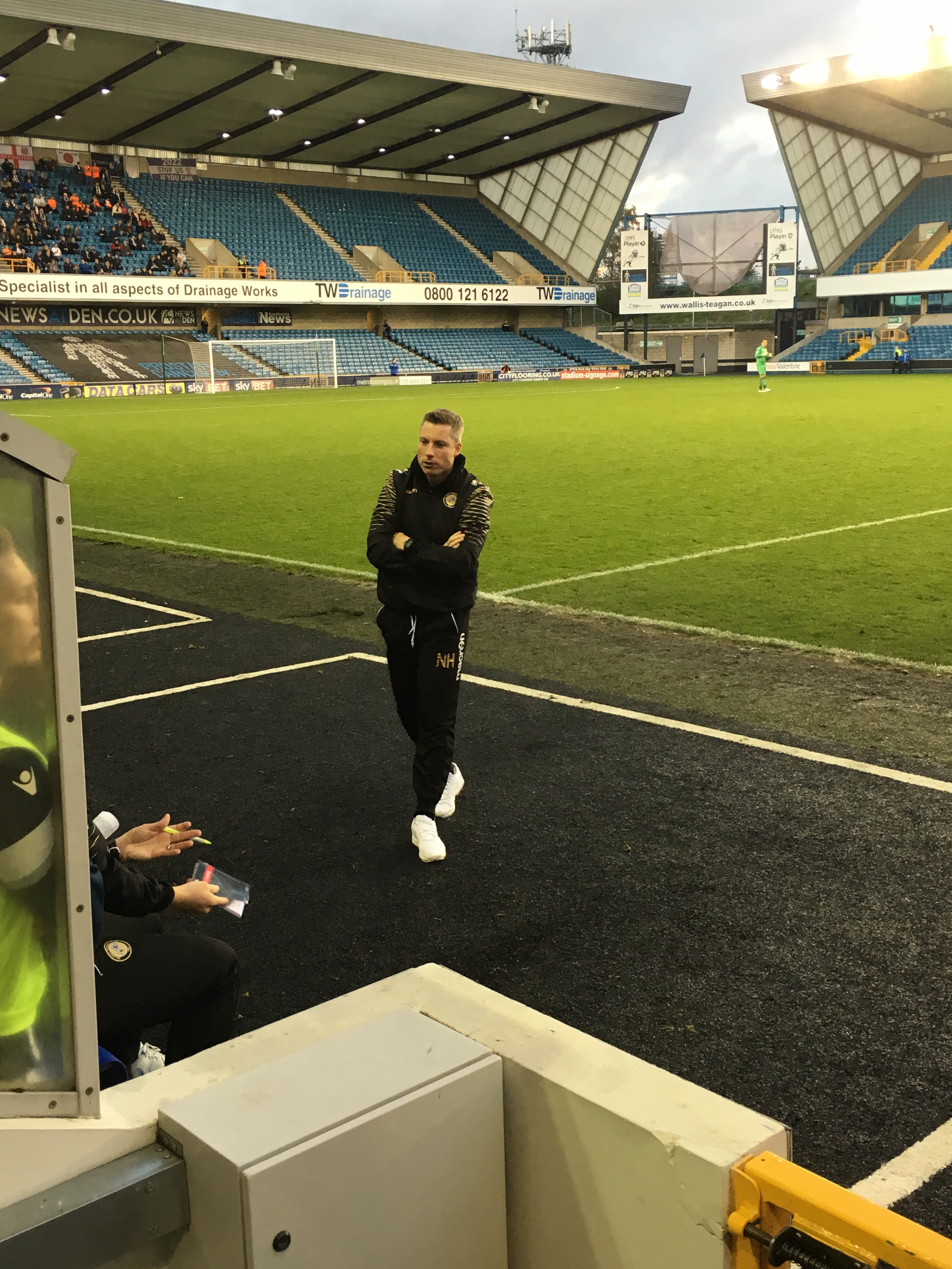 Millwall manager Neil Harris on the touchline in an FA Cup win over AFC Fylde.